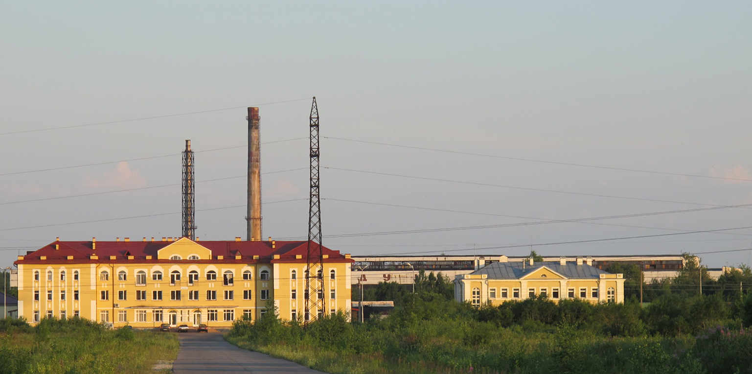 Train station in Ivangorod, Russia